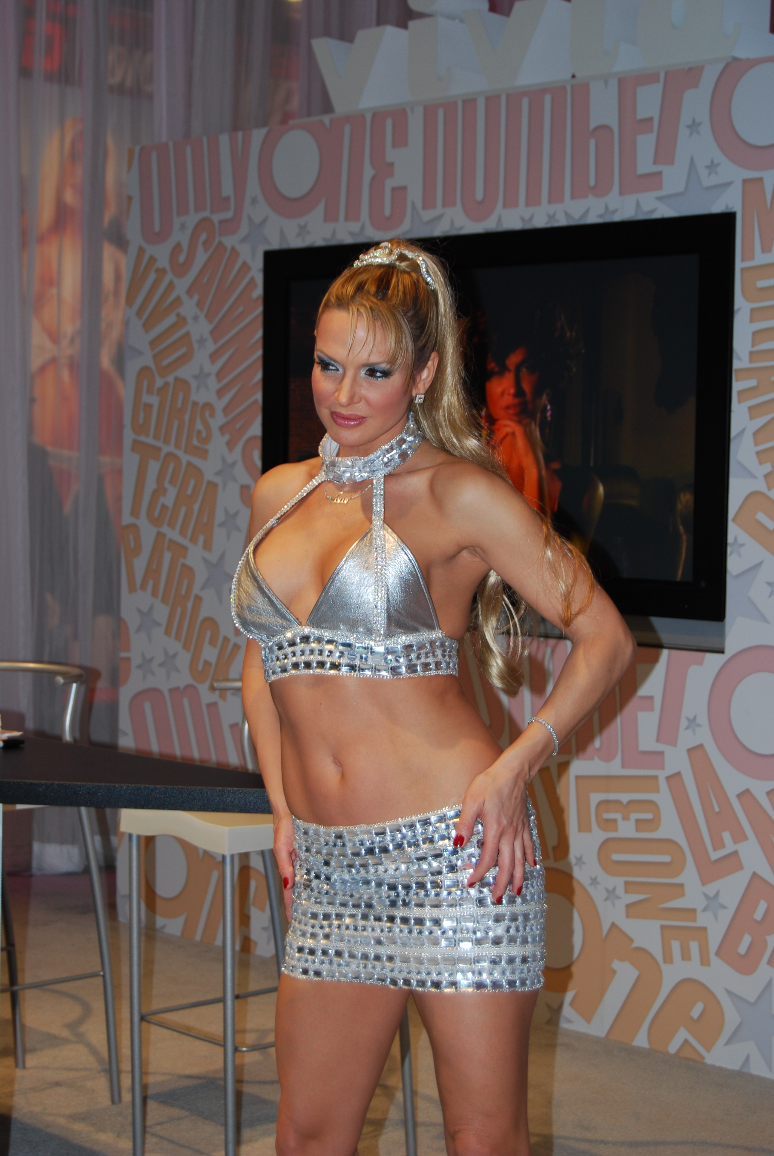 Savanna Samson at the 2008 Adult Entertainment Expo